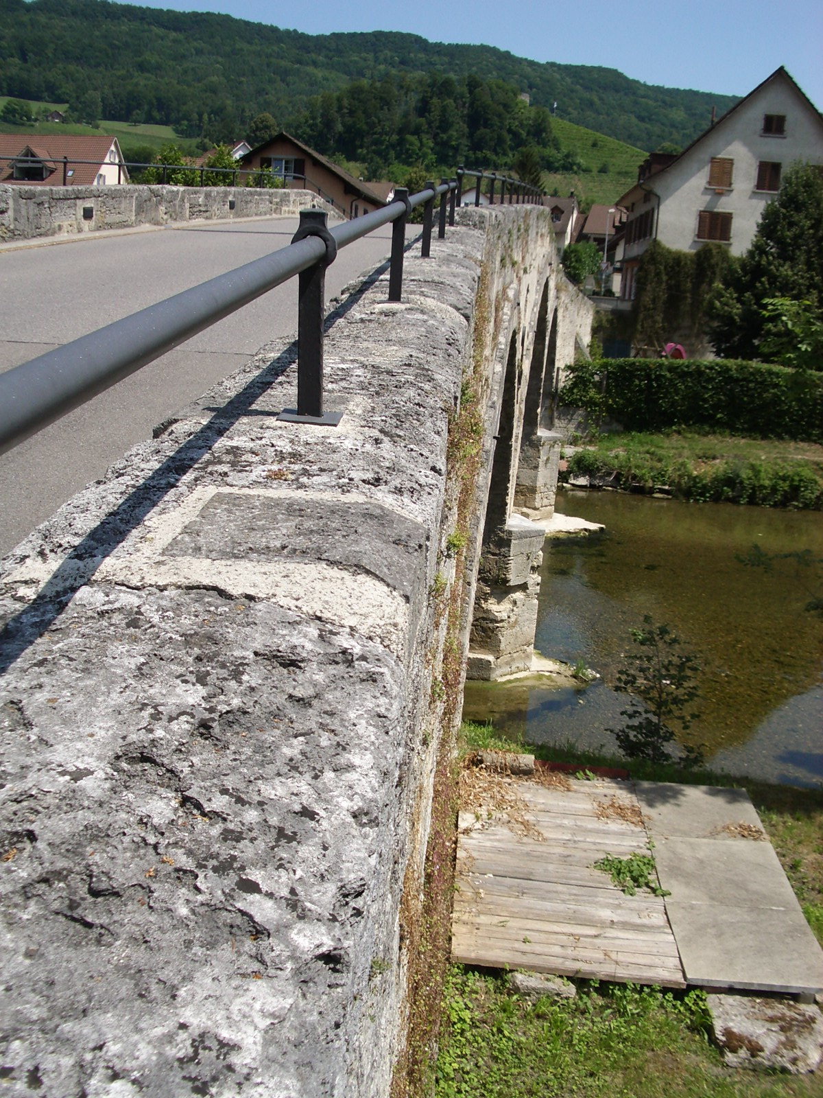 Old bridge, Rorbas ZH, Switzerland